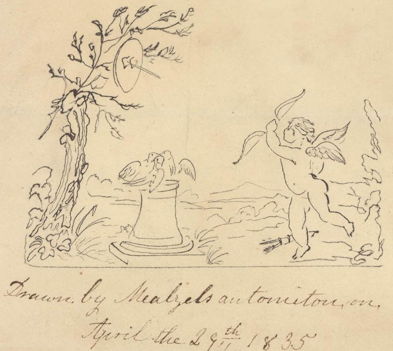 A photograph of an artwork drawn on April 29, 1835 in Boston by an automaton believed to be built by Henri Maillardet (1745-1830) and later owned by Johann Nepomuk Maelzel (1772-1838). The photograph was taken by the Massachusetts Historical Society (date unknown) as part of their collections.